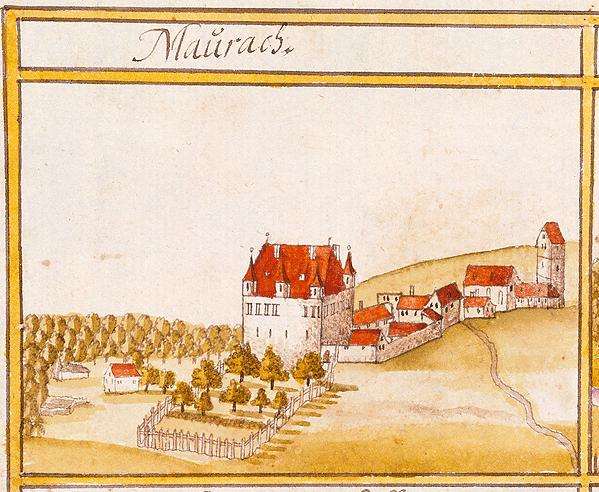 View of Mauren, Ehningen, from the forest register books created by Andreas Kieser